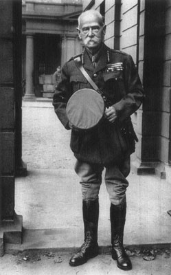 "FIELD MARSHAL LORD ROBERTS, From a Photograph Taken on His Seventy-second Birthday. (Photo by L.N.A.)"